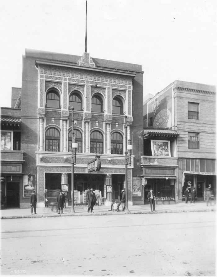 El Paso - Theatres - Alhambra The Alhambra Theatre located at 207-211 S. El Paso St., Cruz Bros (Rodolfo and Manuel) proprietors. The Alhambra was designed by southwest architect Henry C. Trost. Trost chose a Spanish Moorish design for the theatre, and even extended the design to the shops on either side of it. The Alhambra Theatre opened on August 1, 1914. The Alhambra would later be known as the Palace Theatre. Today, it is known as "Tricky Falls" a respectable music venue.